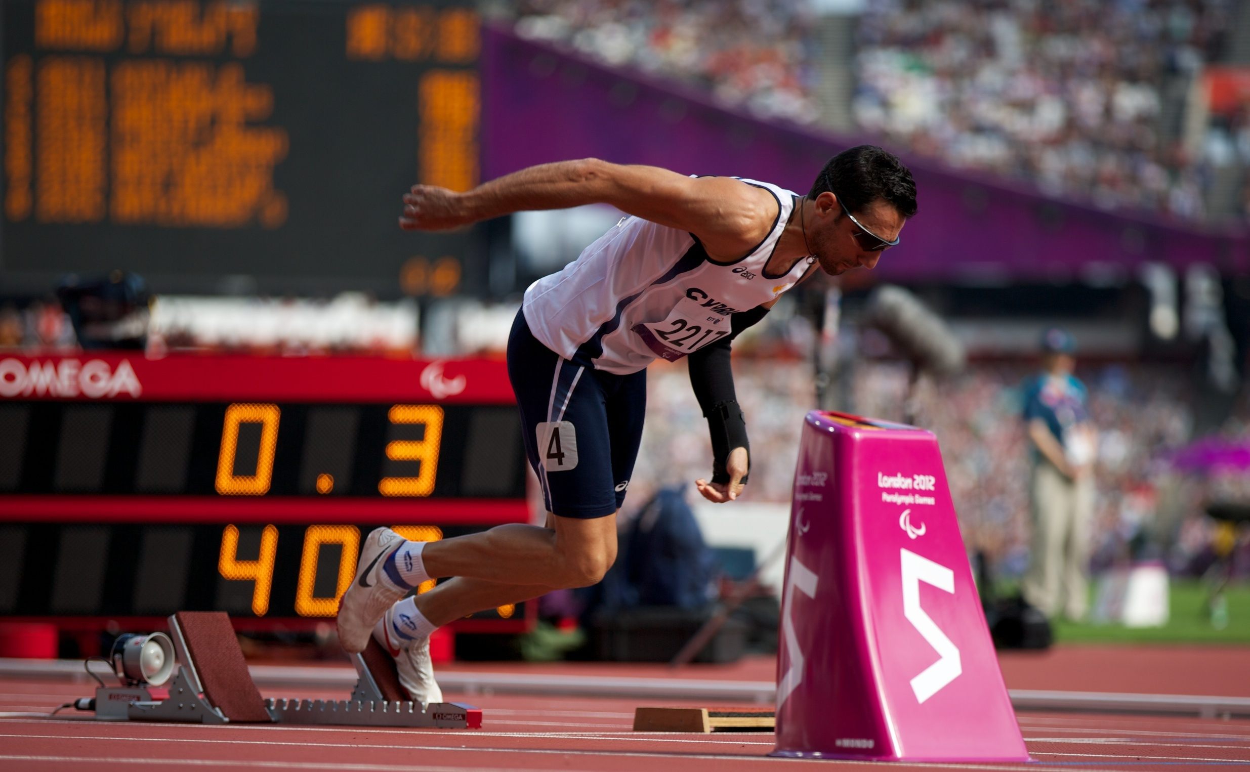 Antonis Arestis at the start of the 400m T46 final race for the London 2012 Paralympics. Photo by Selene Alexia.